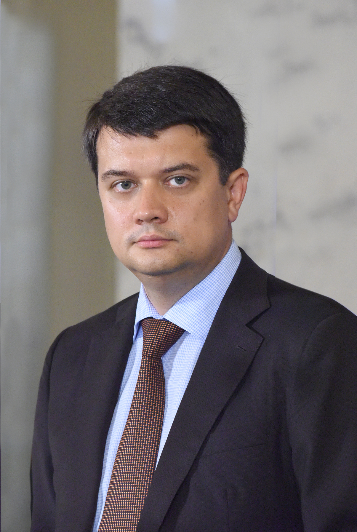 PARLIAMENT OF UKRAINE